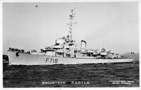 The French frigate Kabyle (F718) underway on 1 February 1955.